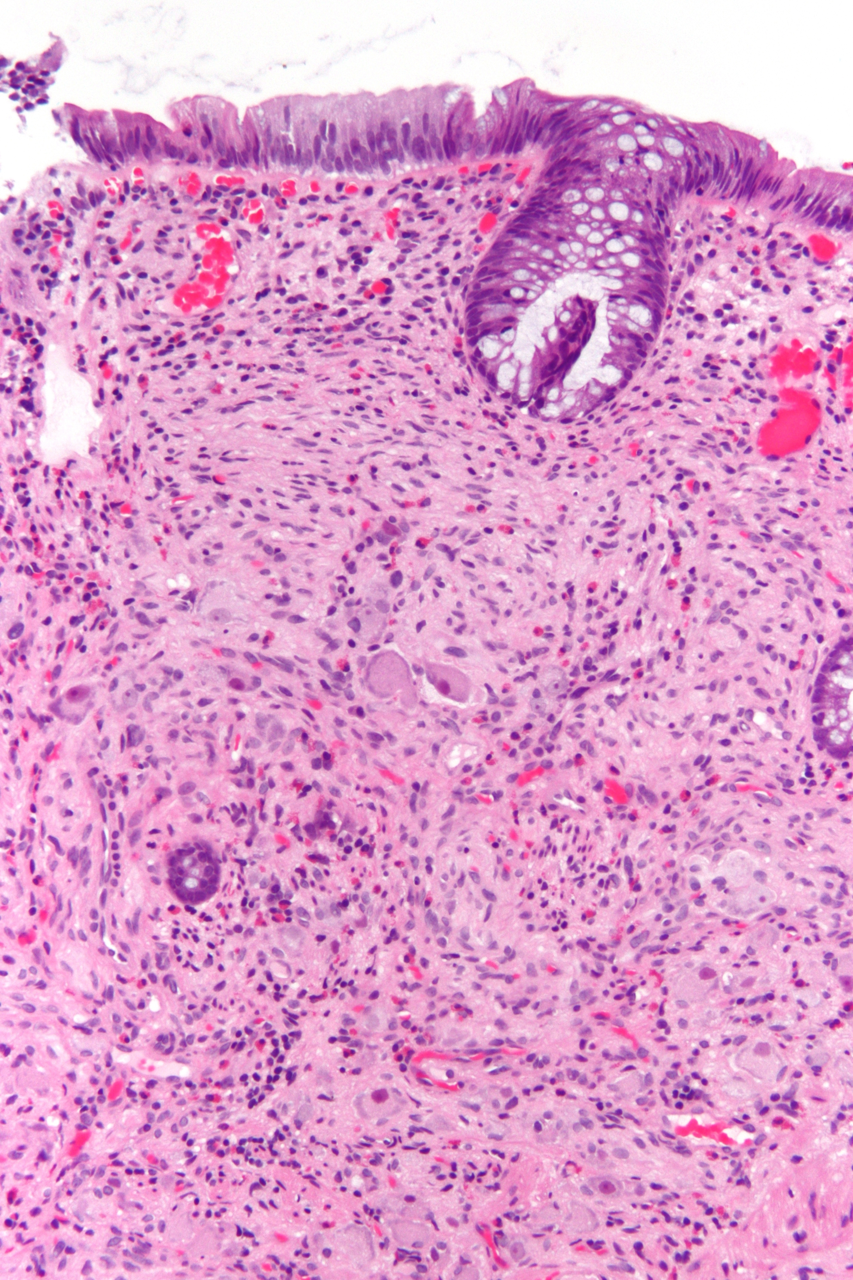 High magnification micrograph of a ganglioneuroma. Colonic biopsy. H&E stain. Ganglioneuromas may be seen in the context of multiple endocrine neoplasia type 2b, also known as multiple endocrine neoplasia type 3. Related images Low mag. Intermed. mag. Intermed. mag. High mag. High mag. Very high mag.